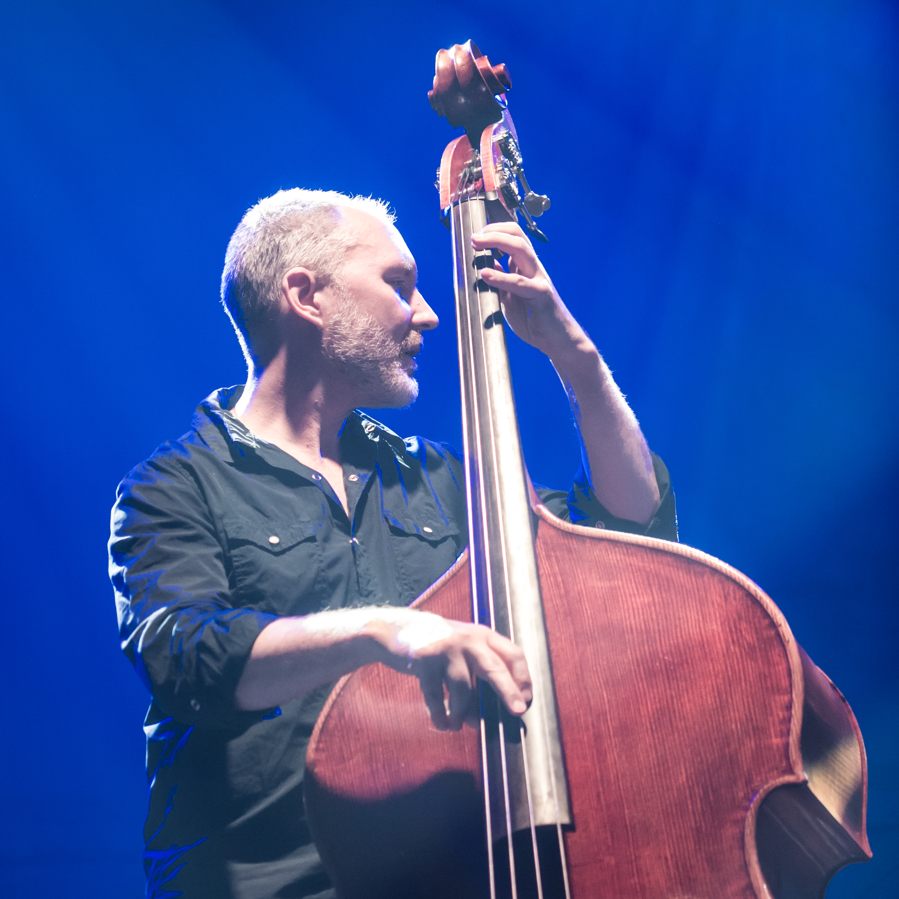 US-american jazz musician Reid Anderson at the Moers Festival 2017